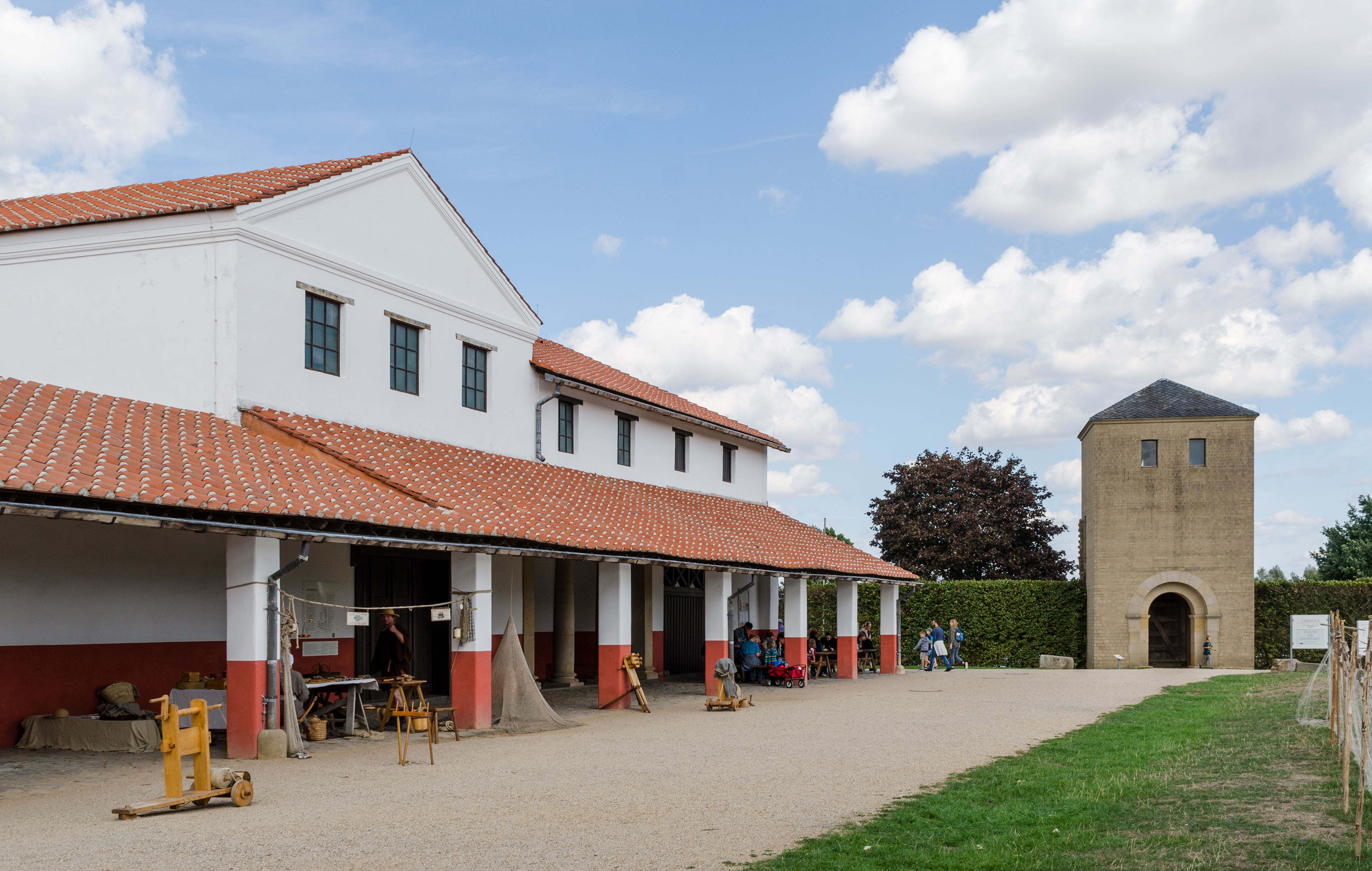 Xanten (North Rhine-Westphalia, Germany) – Archaeological Park – reconstructed hostel of the ancient Roman settlement Colonia Ulpia Traiana